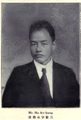 Hu Egong (1884-1951)